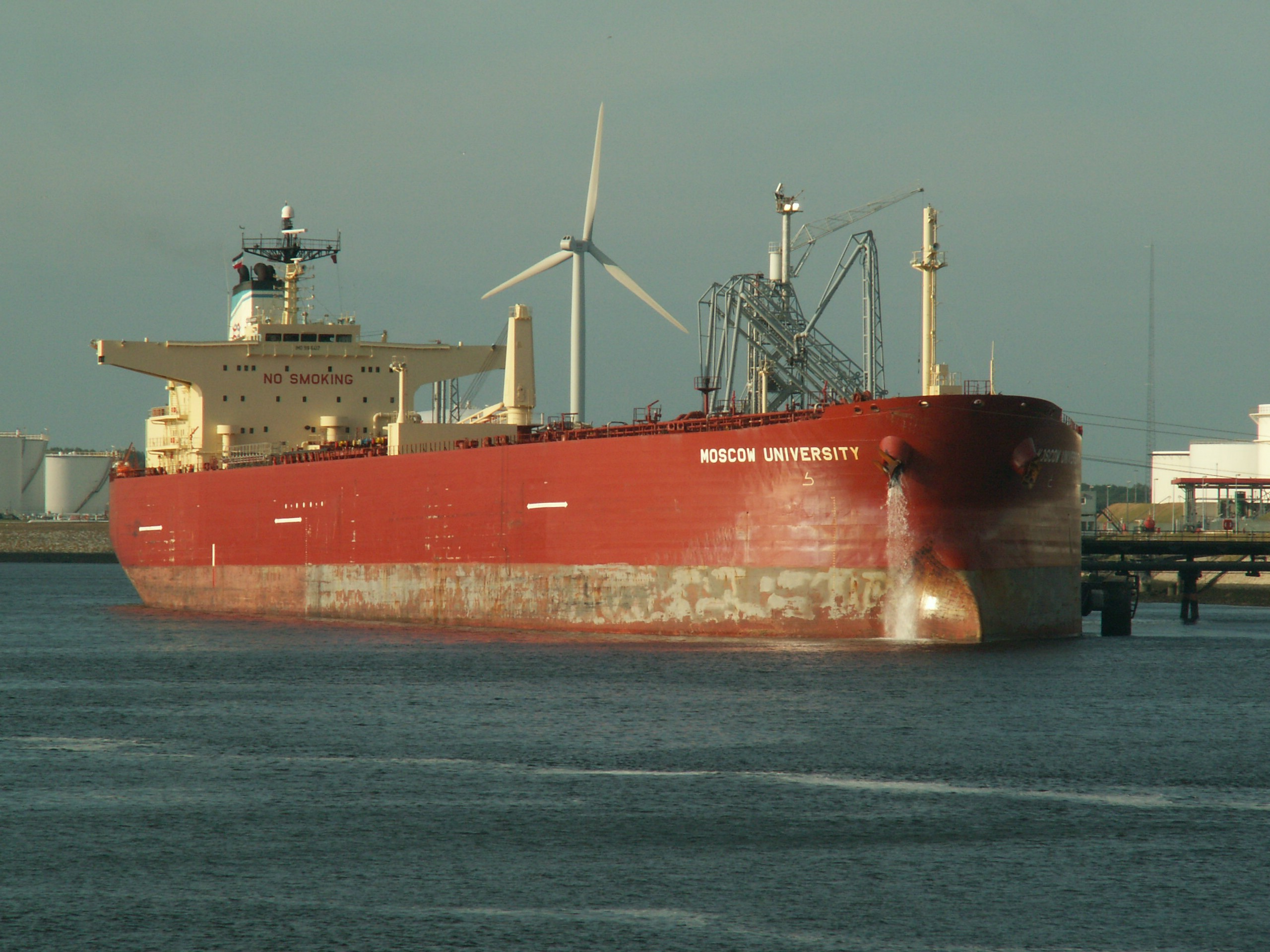 Moscow University IMO 9166417 at the '5e Petroleumhaven', Port of Rotterdam